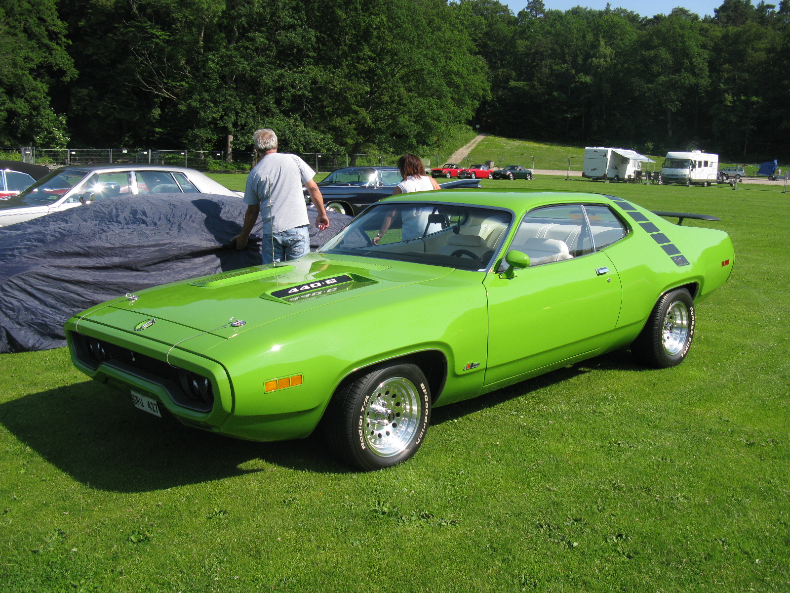 Plymouth Roadrunner 440